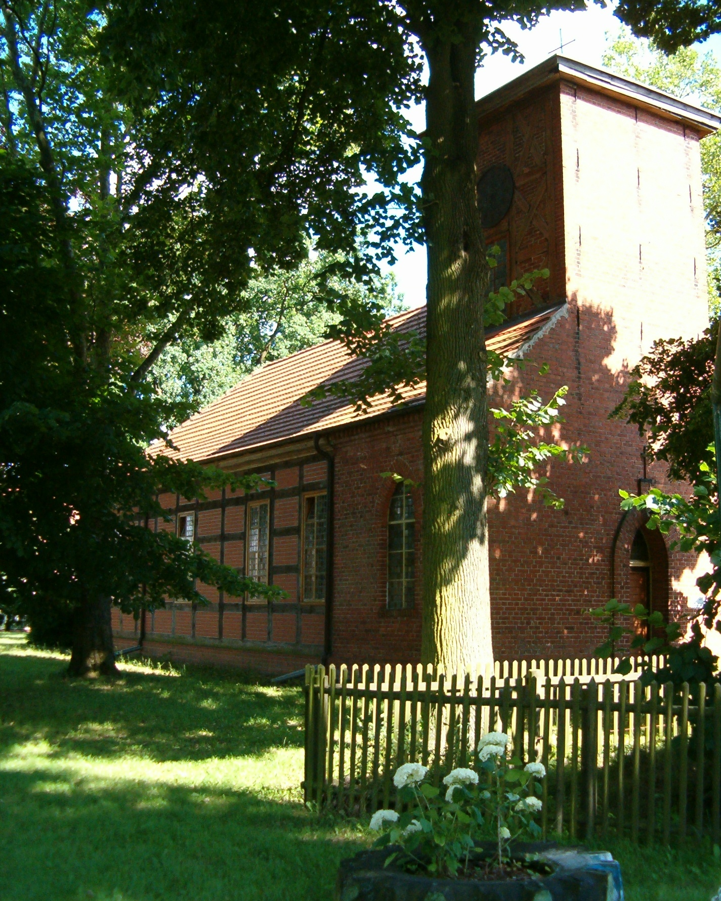 Church in Wutzetz in Brandenburg, Germany